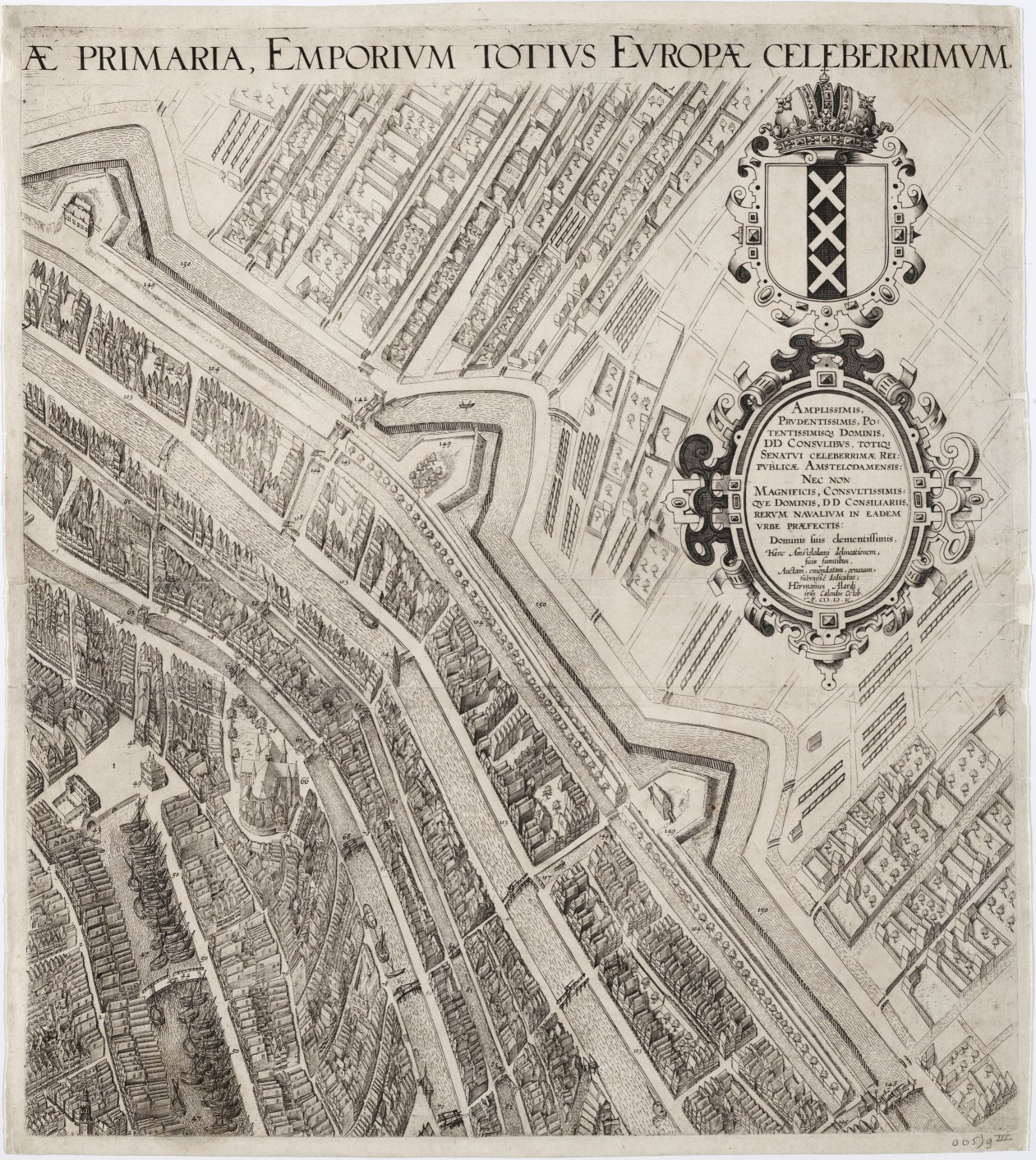 Amstelodamum urbs Hollandiae primaria emporium totius Europae celeberrimum. Part 2 of a 4-part map of Amsterdam.